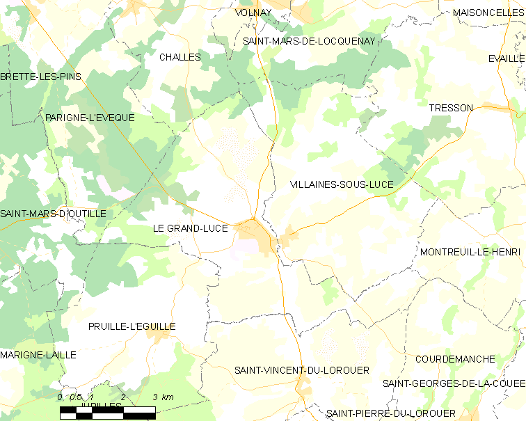 Map of French municipality